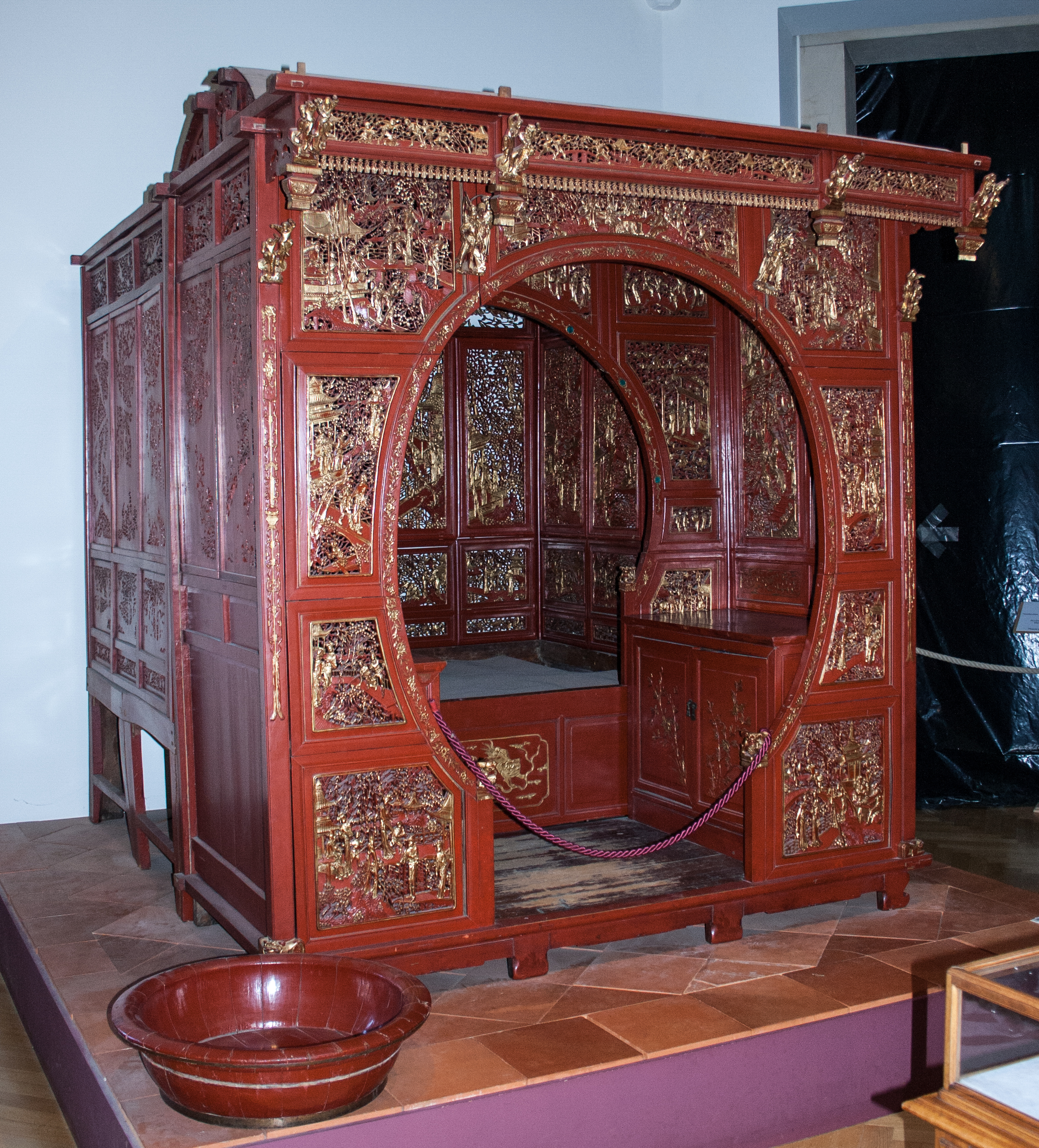 Chinese bed